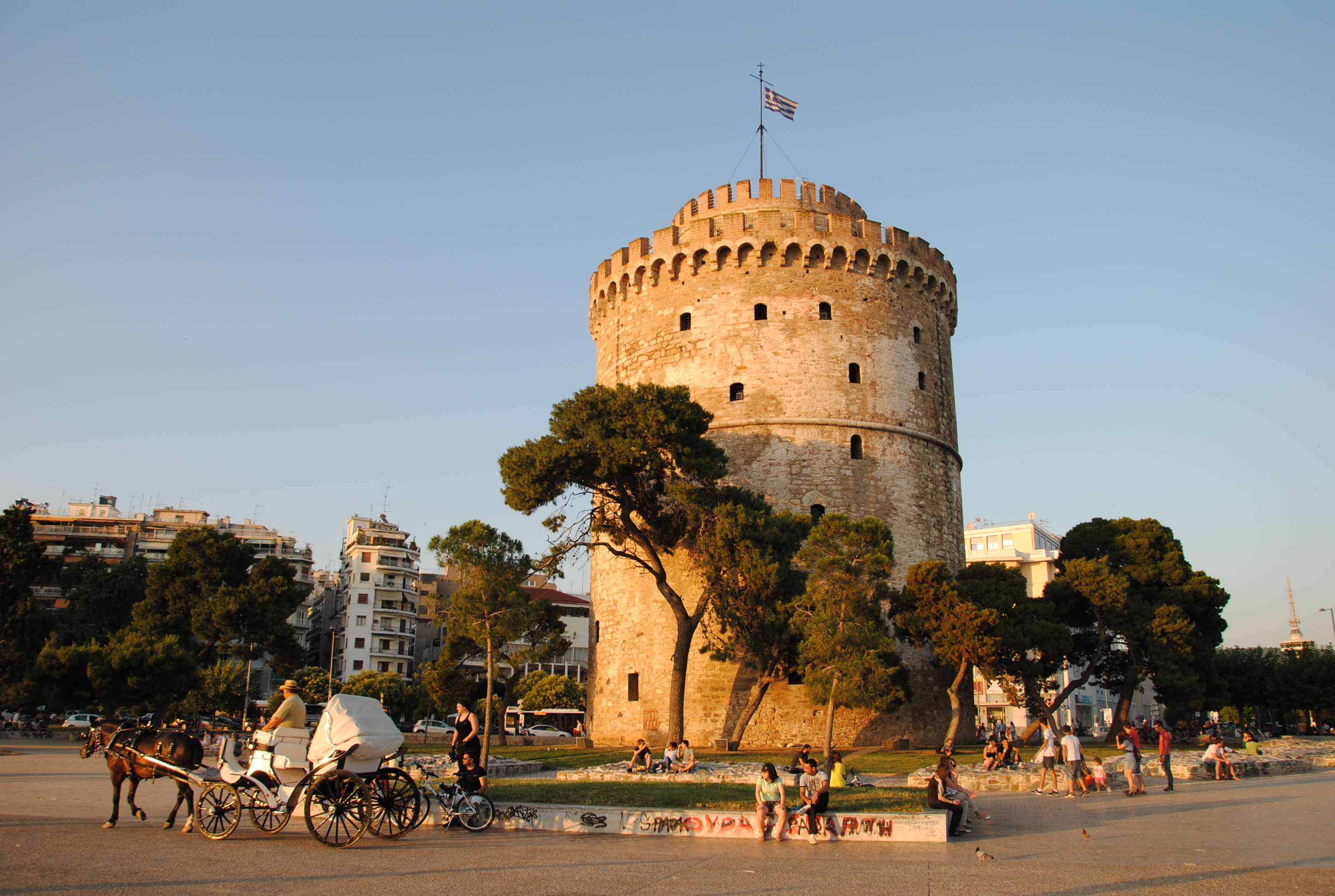 Thessaloniki, Greece